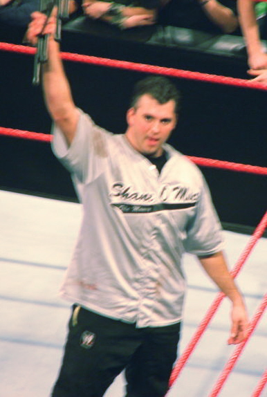 A free use image of Shane O Mac